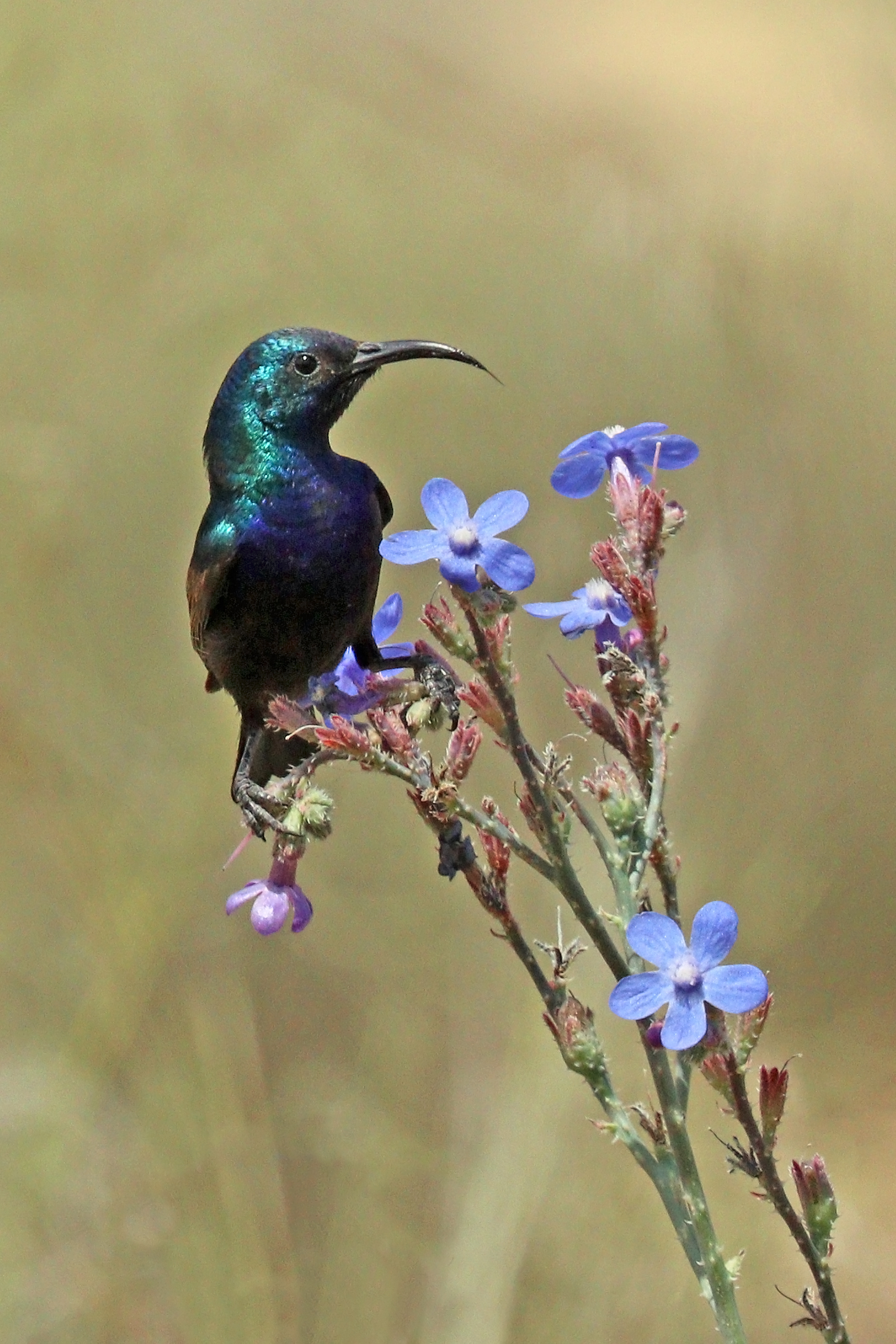 Palestine sunbird (Cinnyris osea osea) male, Dana Biosphere Reserve, Jordan